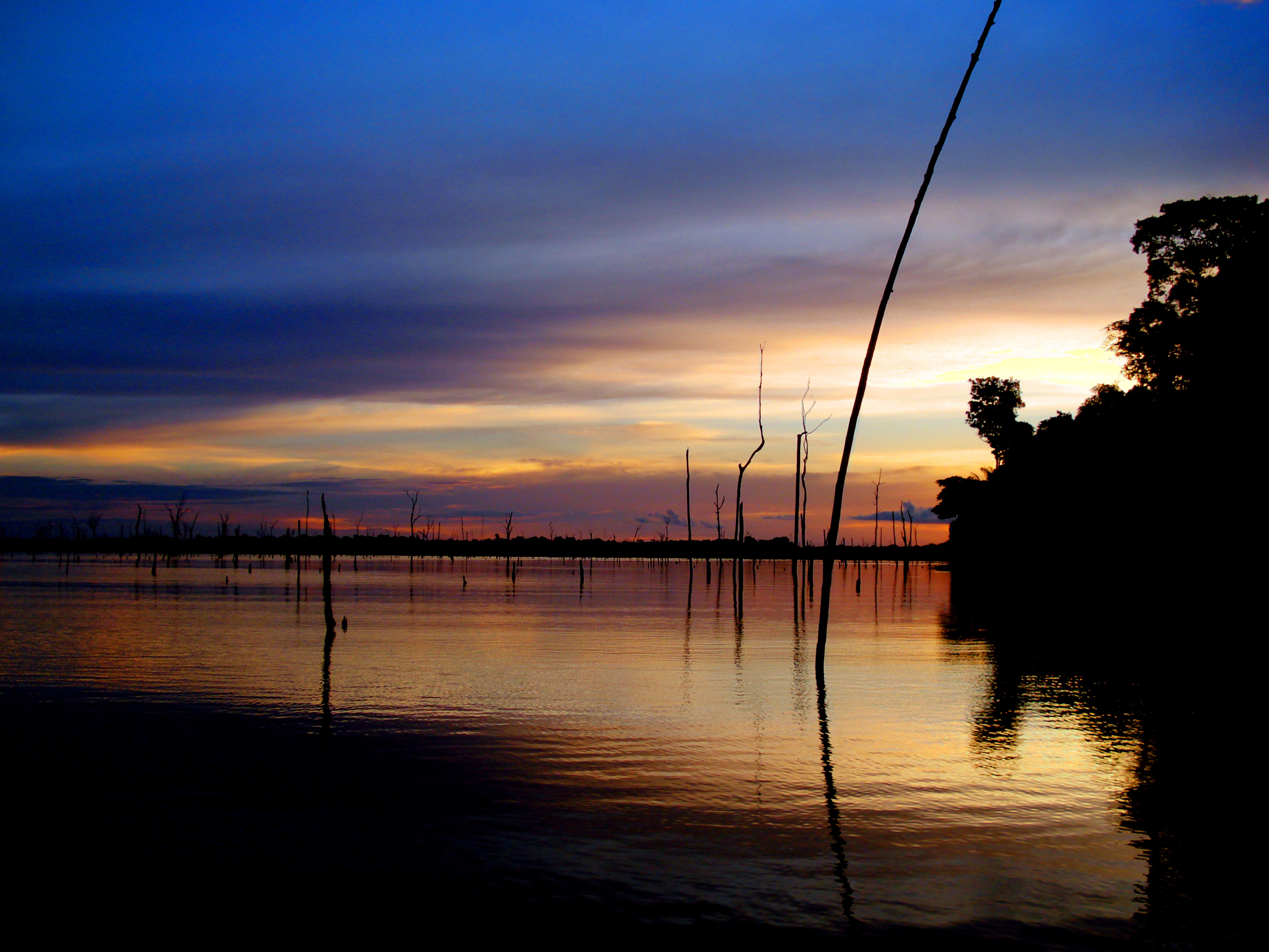 Balbina Dam (Usina Hidreletrica de Balbina), in Amazon, Brazil